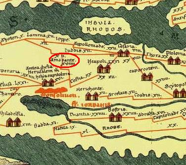 Partial view of the Peutinger table representing the Holy Land with helyacapitolina (Jerusalem) near Mons Oliveti (Mount of Olives) in orange and Amauante (Ammaous aka Emmaus) in the red circle.